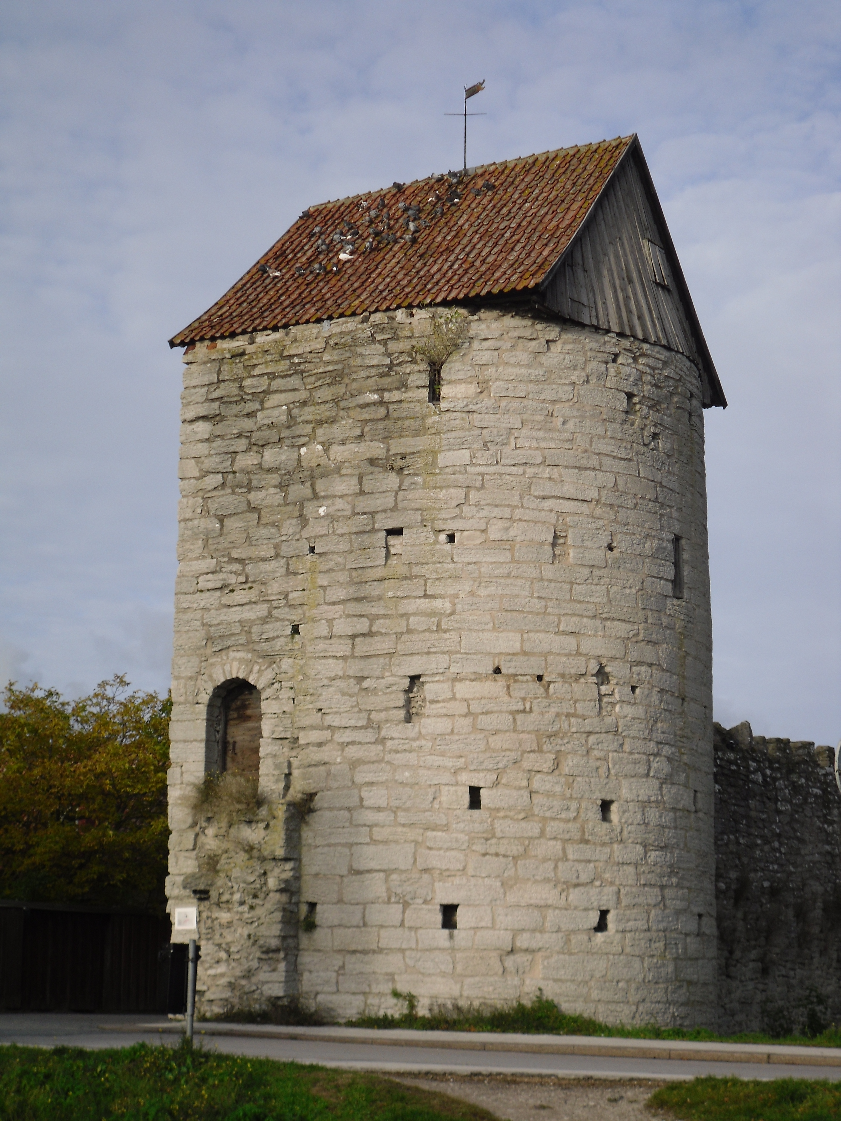 Visby city wall, Visby, Sweden.